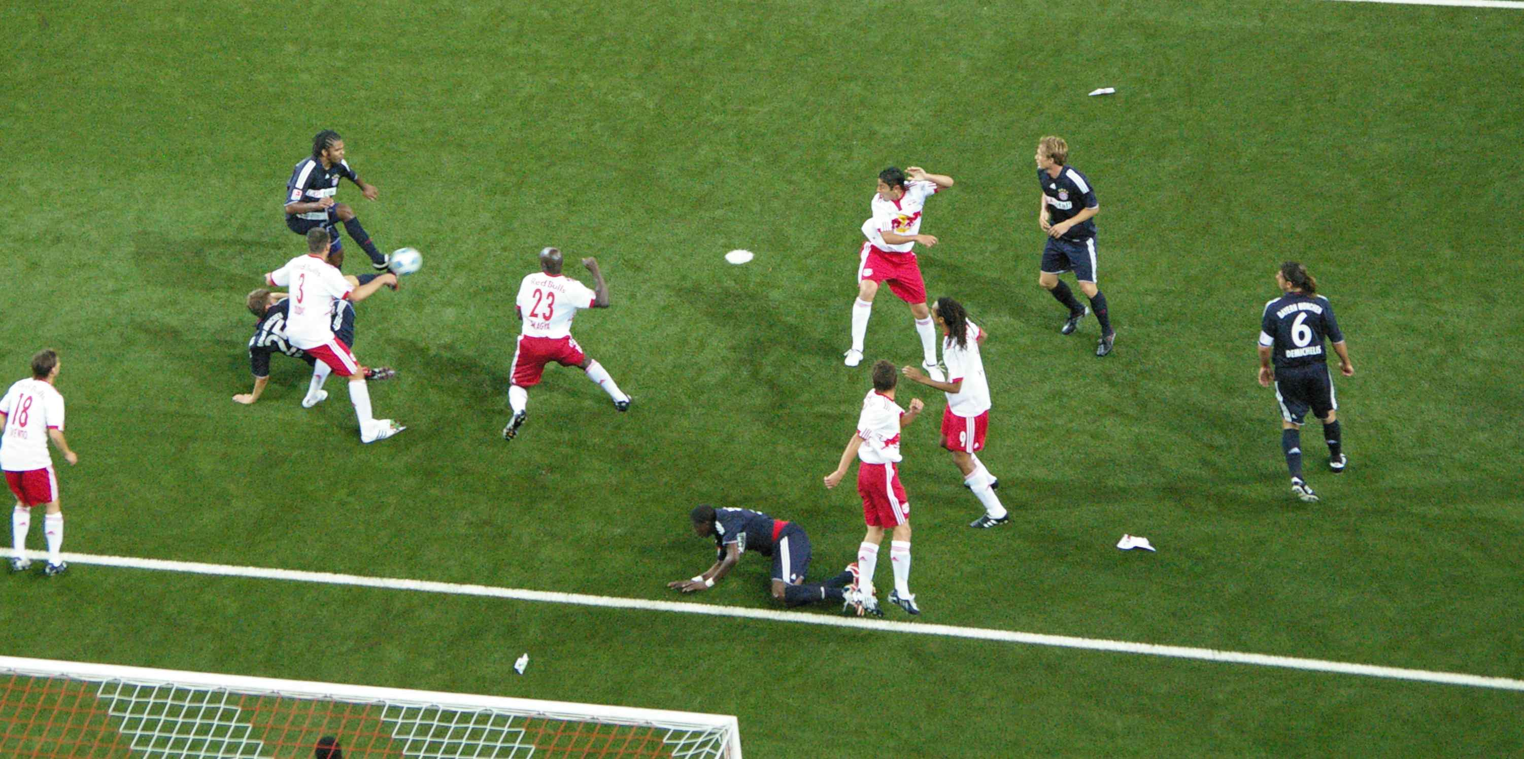 friendly match vs.Bayern München